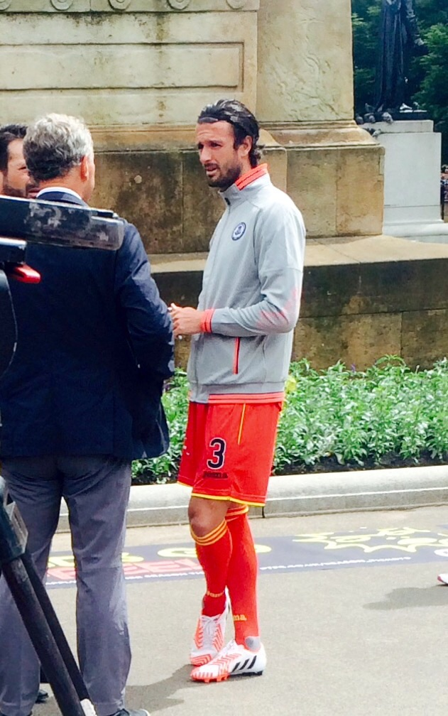 Dan Seaborne at a media event in Glasgow